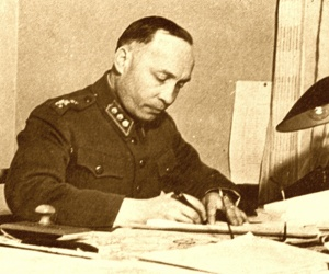 Finnish lieutenant general & main strategic planner Aksel Fredrik Airo (as it shows his rank was colonel at the time the picture was taken) in his office in headquarters of the Finnish Defence Forces.